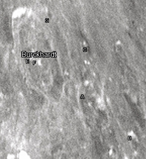 Burckhardt lunar crater as seen from Earth with satellite craters labeled